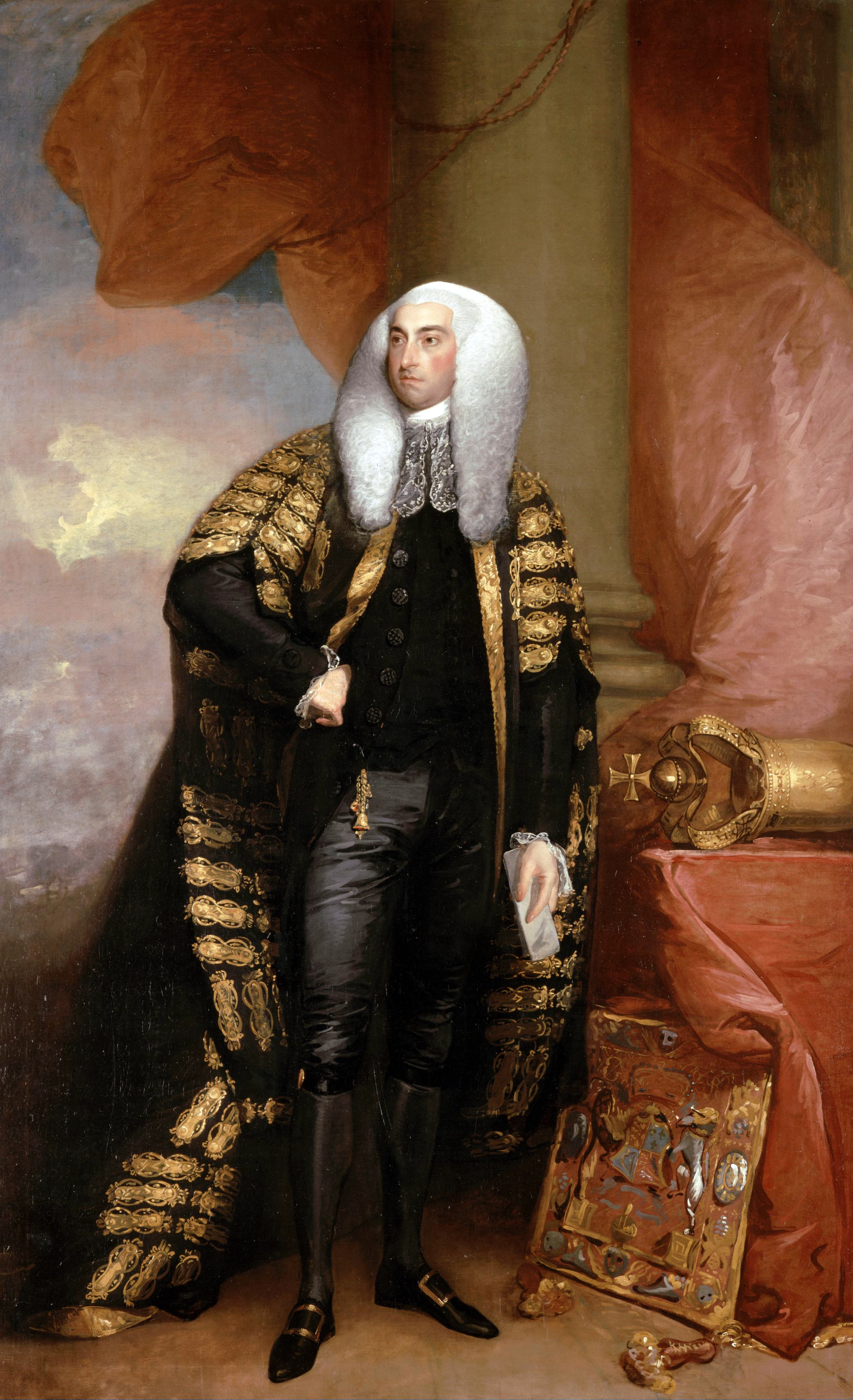 Portrait of John FitzGibbon, 1st Earl of Clare (c.1749-1802)